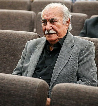 Ebrahim Abadi in the mourning ceremony of Homa Roosta. (Mehr 1394)